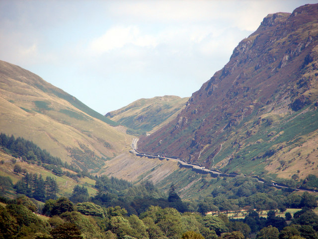 Bwlch Llyn Bach, near to Minffordd, Gwynedd, Wales. A long telephoto shot of the pass, as seen from the Pen-y-bont Hotel at the south-west end of Tal-y-llyn Lake, about 3 miles away.